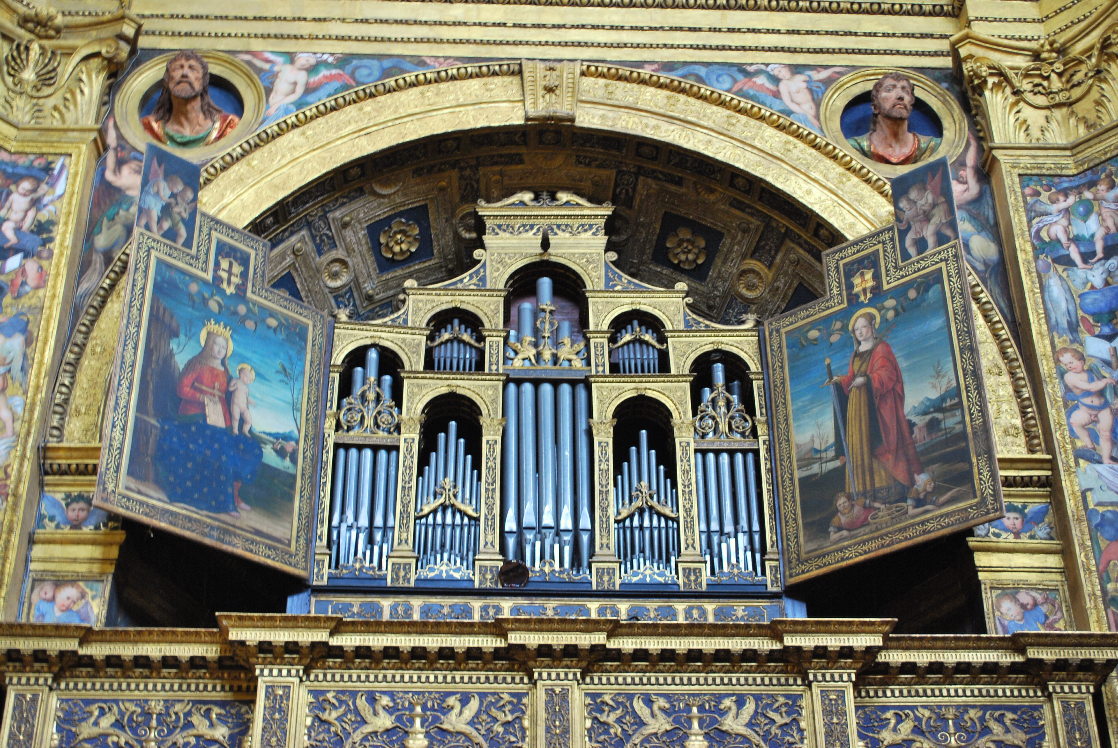 View of the organ with wings opened (Tempio Civico della Beata Vergine Incoronata, Lodi, Italy)